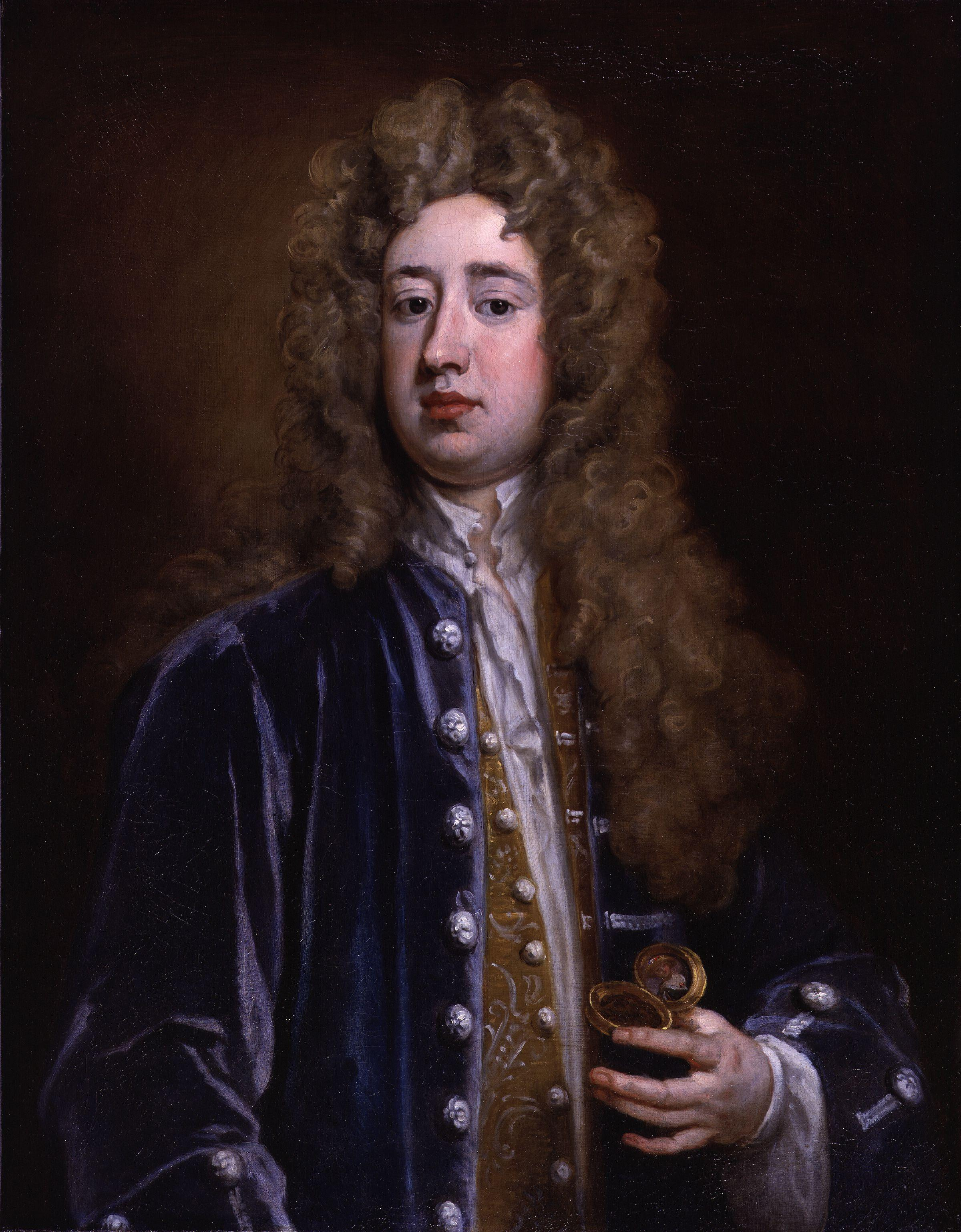 Charles Mohun, 4th Baron Mohun, by Sir Godfrey Kneller, Bt (died 1723), given to the National Portrait Gallery, London in 1945. All images in this batch have been confirmed as author died before 1939 according to the official death date listed by the NPG.